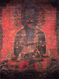 Kongōku (金剛吼), one of the "Five great Bodhisattvas of strength" (五大力菩薩像, godairiki bosatsu). Two of the five hanging scrolls were destroyed by fire. This is one of the three remaining scrolls. Dated to the Heian period. Located at Yūshi Hachimankō Jūhakkain (有志八幡講十八箇院), Mt. Kōya, Wakayama, Japan.